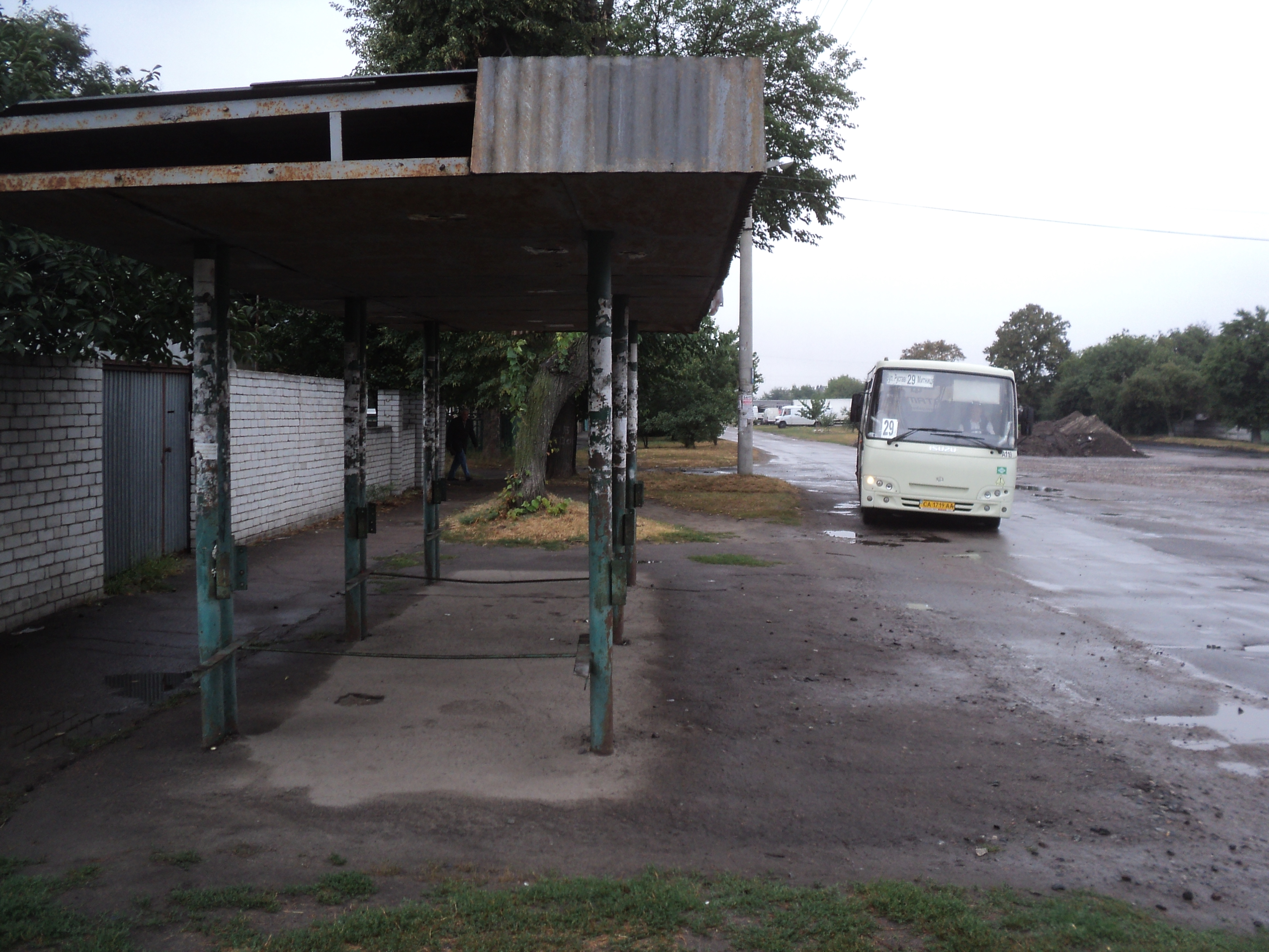 Anatoliy Lupynis bus stop, Cherkasy, Ukraine. September, 2018